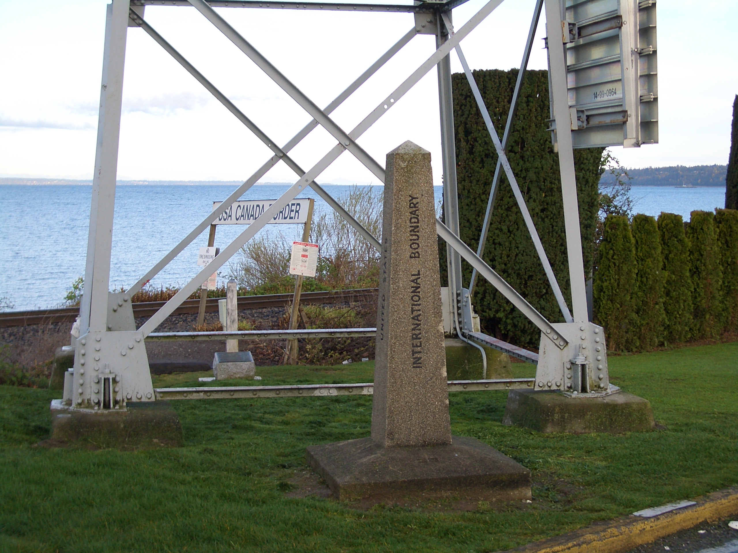 A border stone and a railroad border sign at Peace Arch Park. This is the westernmost boundary stone on the continuous main section of the US-Canada border. (Of course, Point Roberts and Alaska form more westerly sections). Semiahmoo Bay in the background.